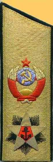 Rank insignia of the USSR Armed Forces/ Sea war fleet (Navy), here “Admiral of the fleet of the Soviet Union” (OF-10) – shoulder strap dress uniform 1955-1991.